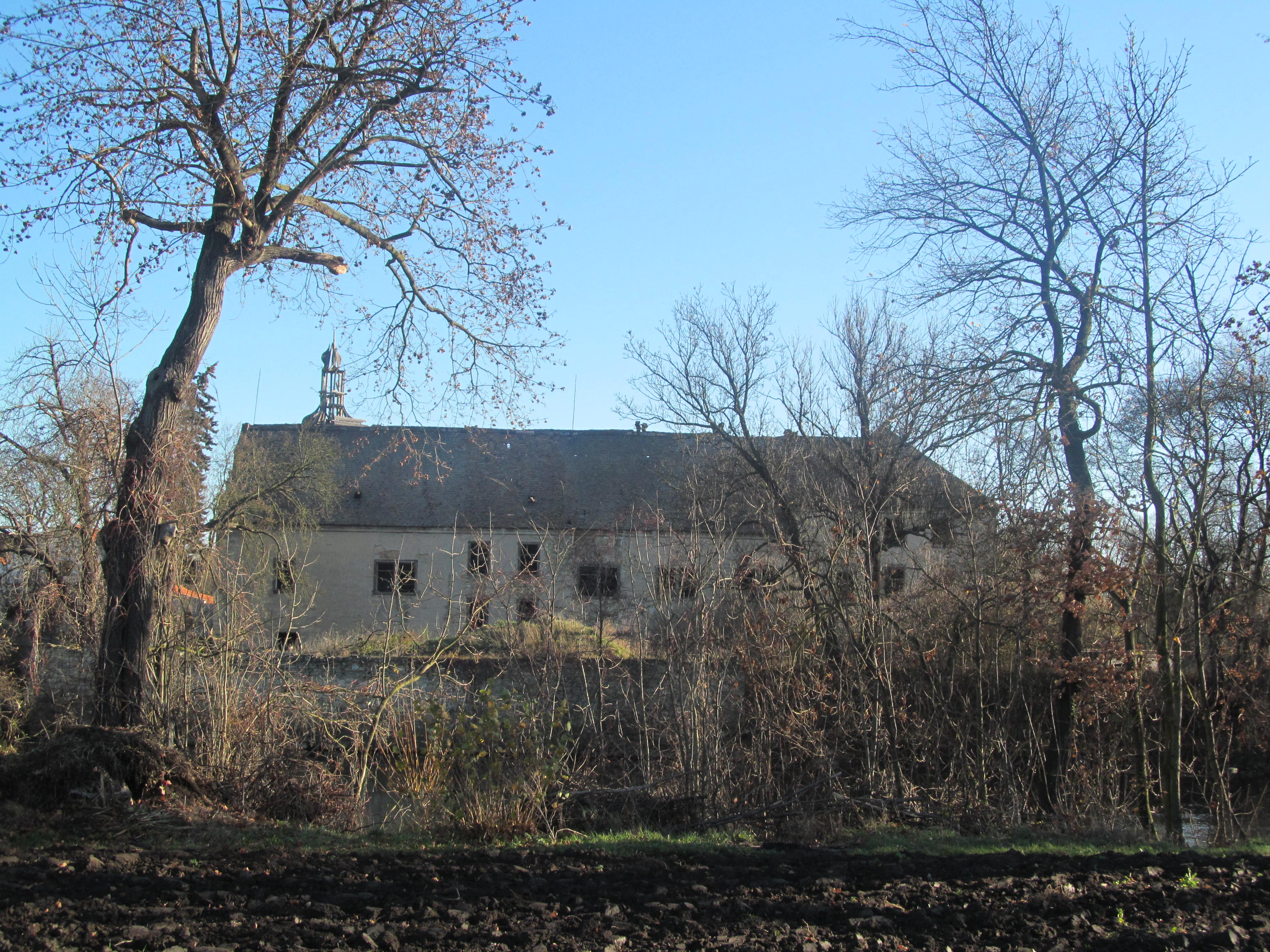 Vršovice Castle from west